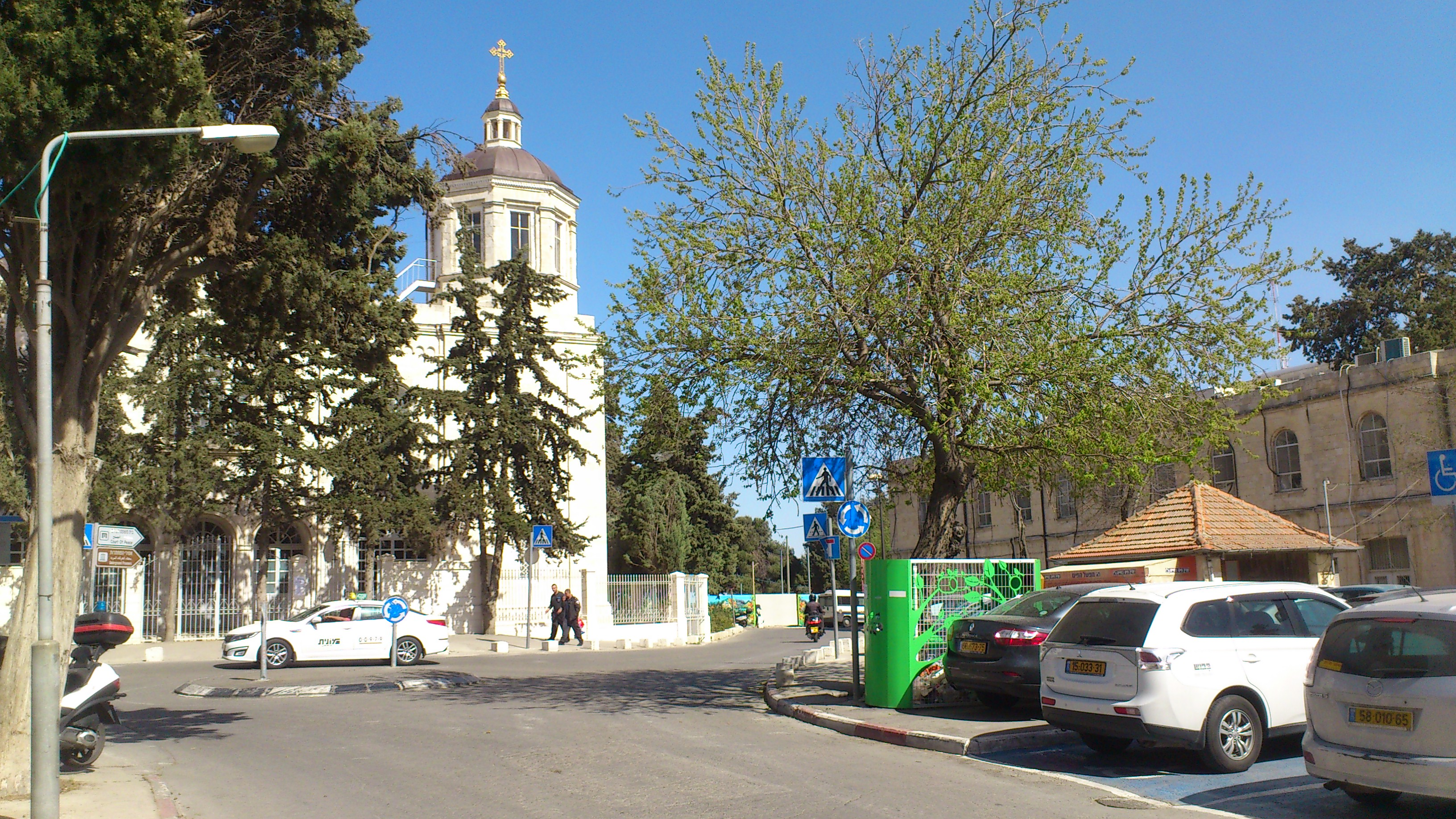 Moscow Square, Jerusalem